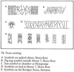 Runic symbols at Skara Brae and related sites